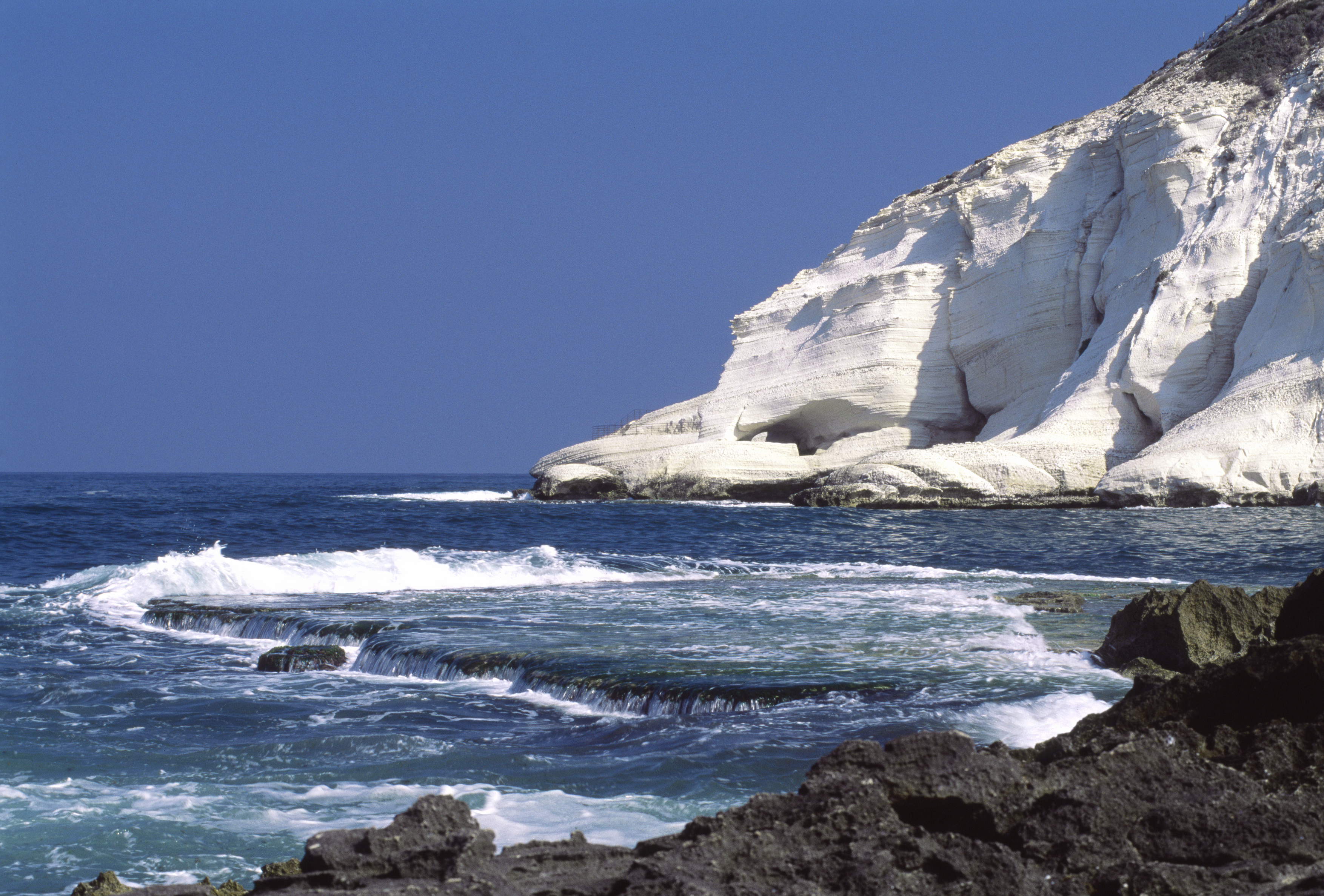 Rosh HaNikra is a geologic formation in Israel, located on the coast of the Mediterranean Sea, in the Western Galilee. It is a white chalk cliff face which opens up into spectacular grottoes. The picture shows the cliff and the grottoes from the shore.Photo taken by Itamar Grinberg for the Israeli Ministry of Tourism. Credit attribution requested.